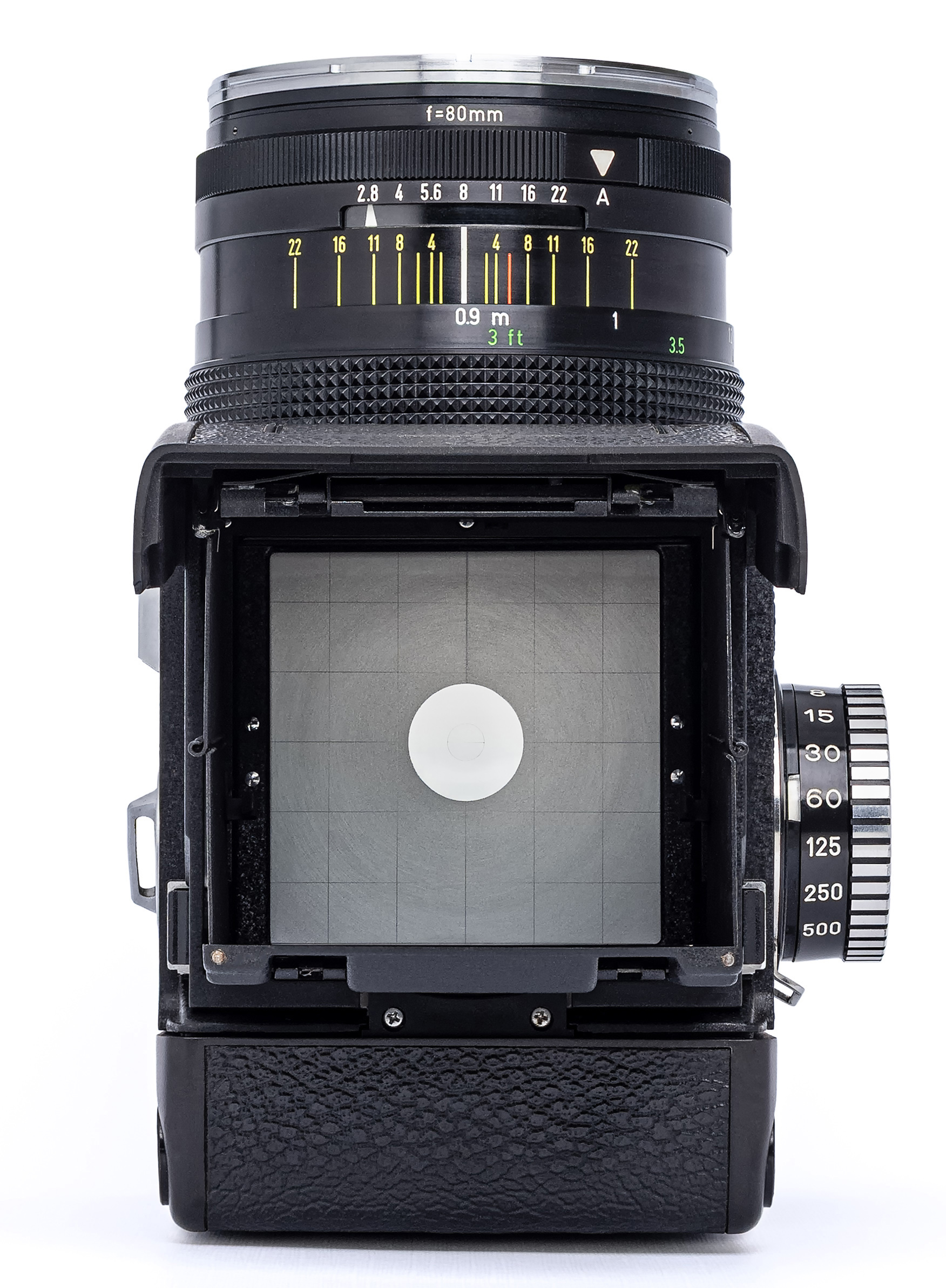 SLR medium format camera Rollei Rolleiflex SLX with lens Rollei-HFT Planar 80 mm / 1:2.8 and Folding Waist Level opened – top view. Marketing date: 1976.